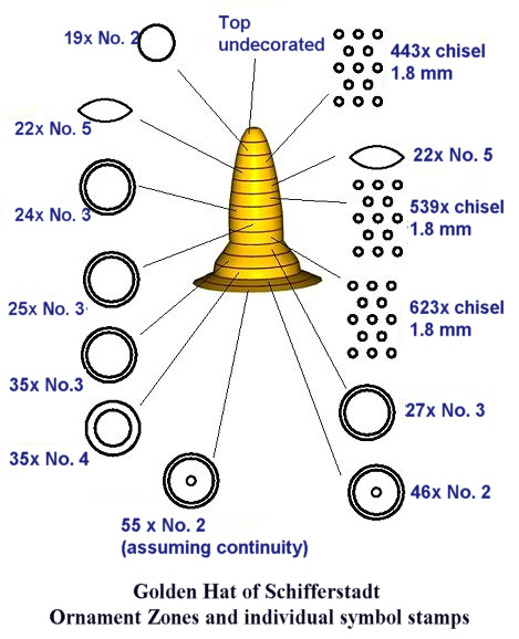 The Golden Hat of Schifferstadt. Schematic depiction of ornamention and stamps.